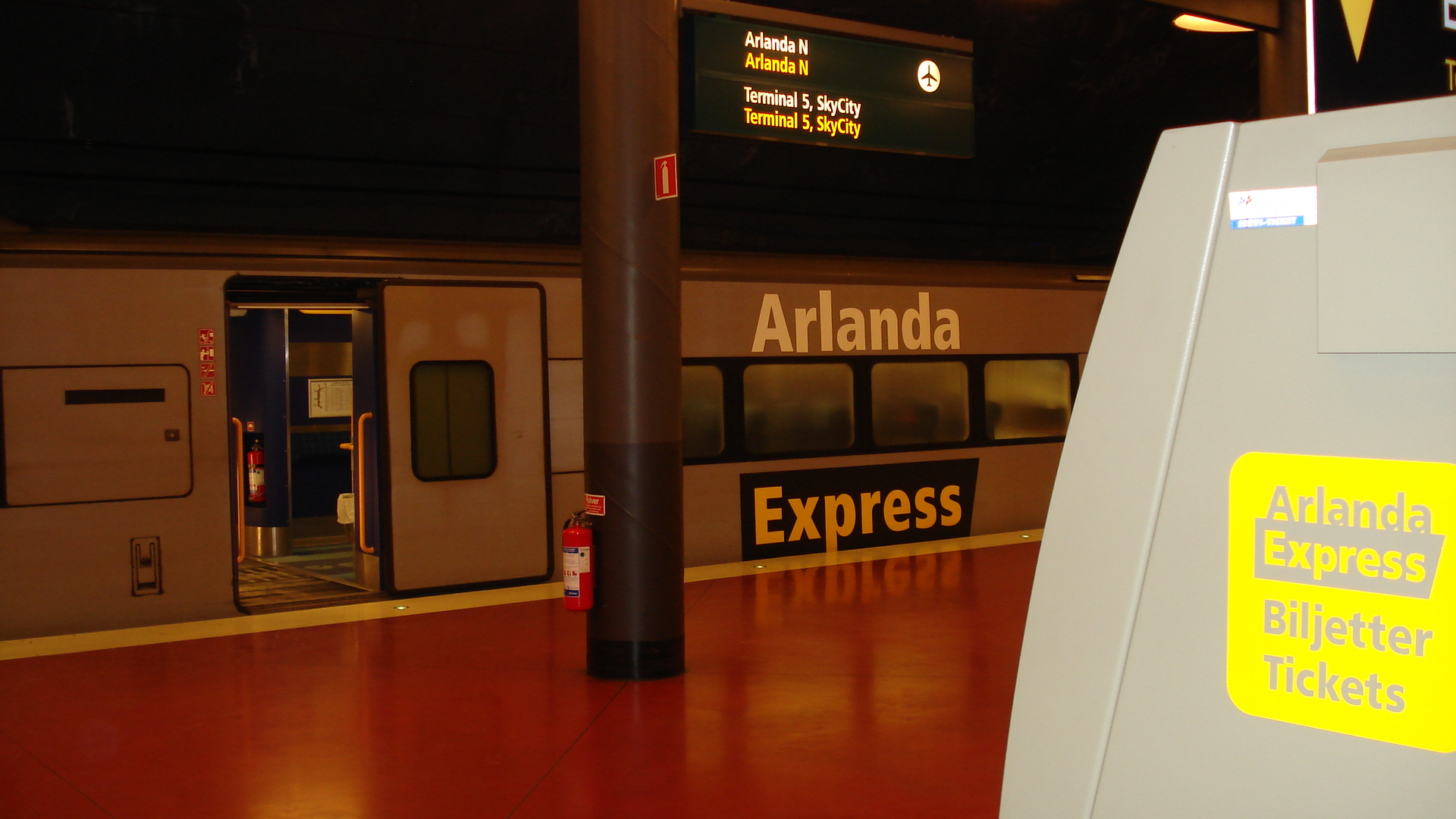 Foto of Arlanda Express at Airport railway station